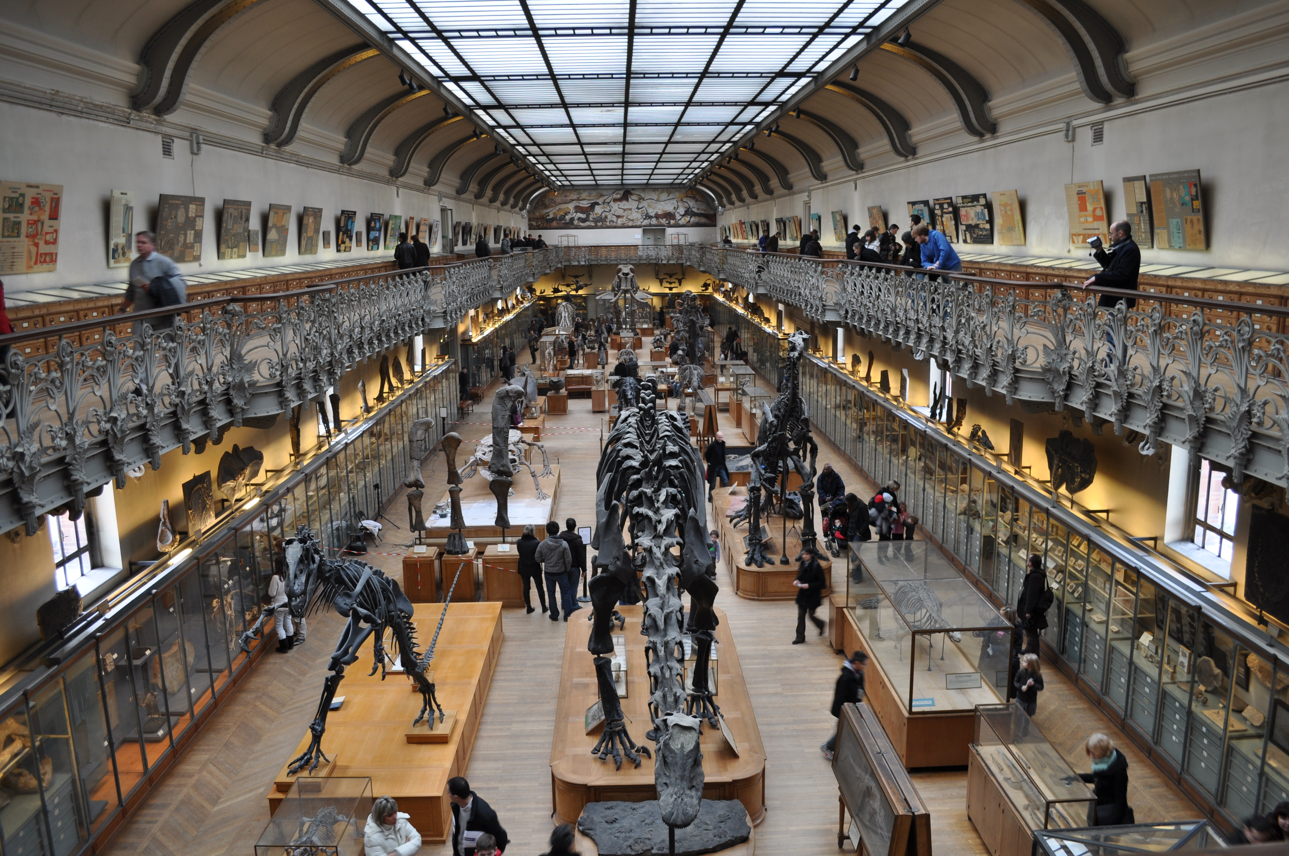 Picture of the second floor of the Galerie de paléontologie et d'anatomie comparée building.